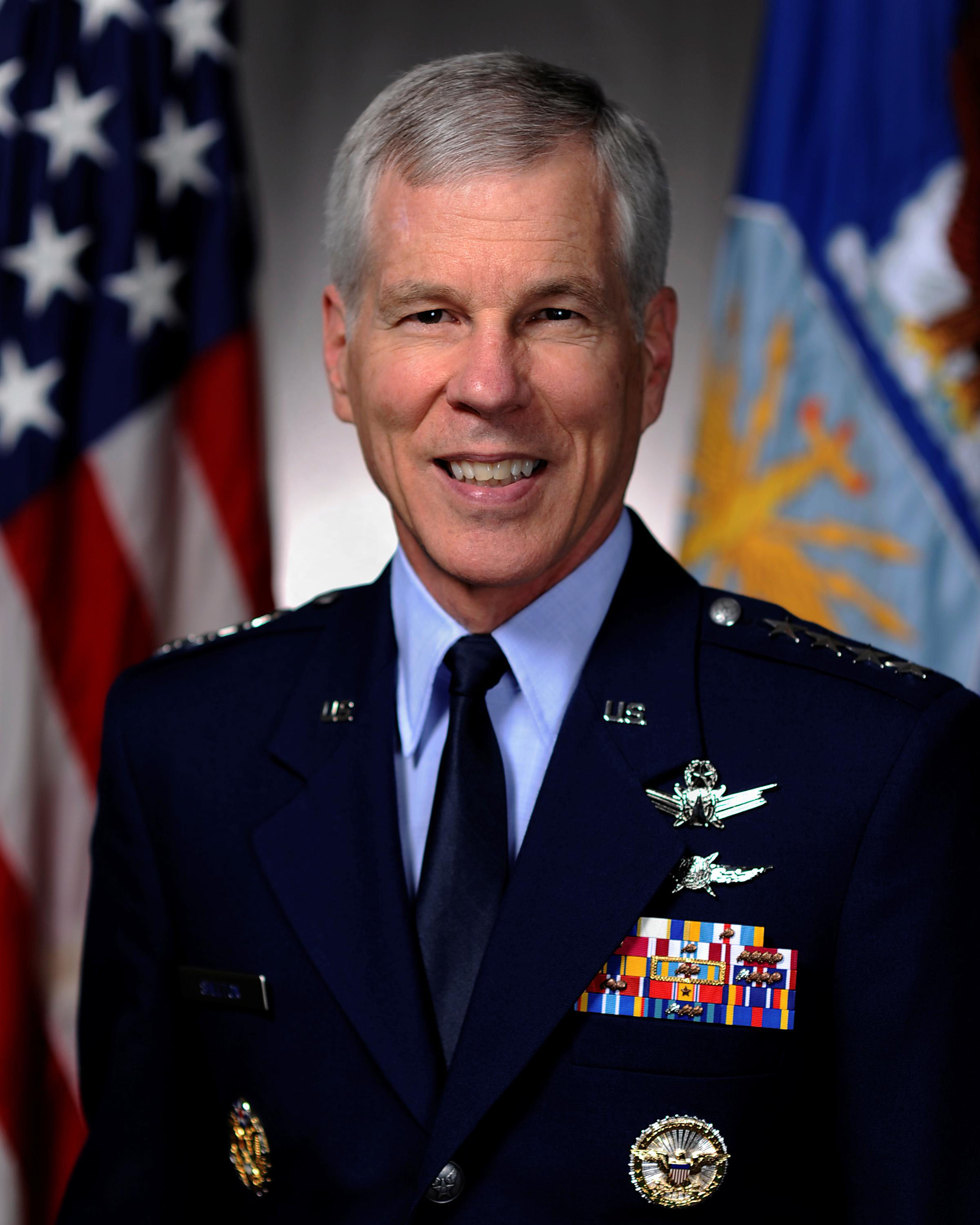 Official General Photo for William L. Shelton